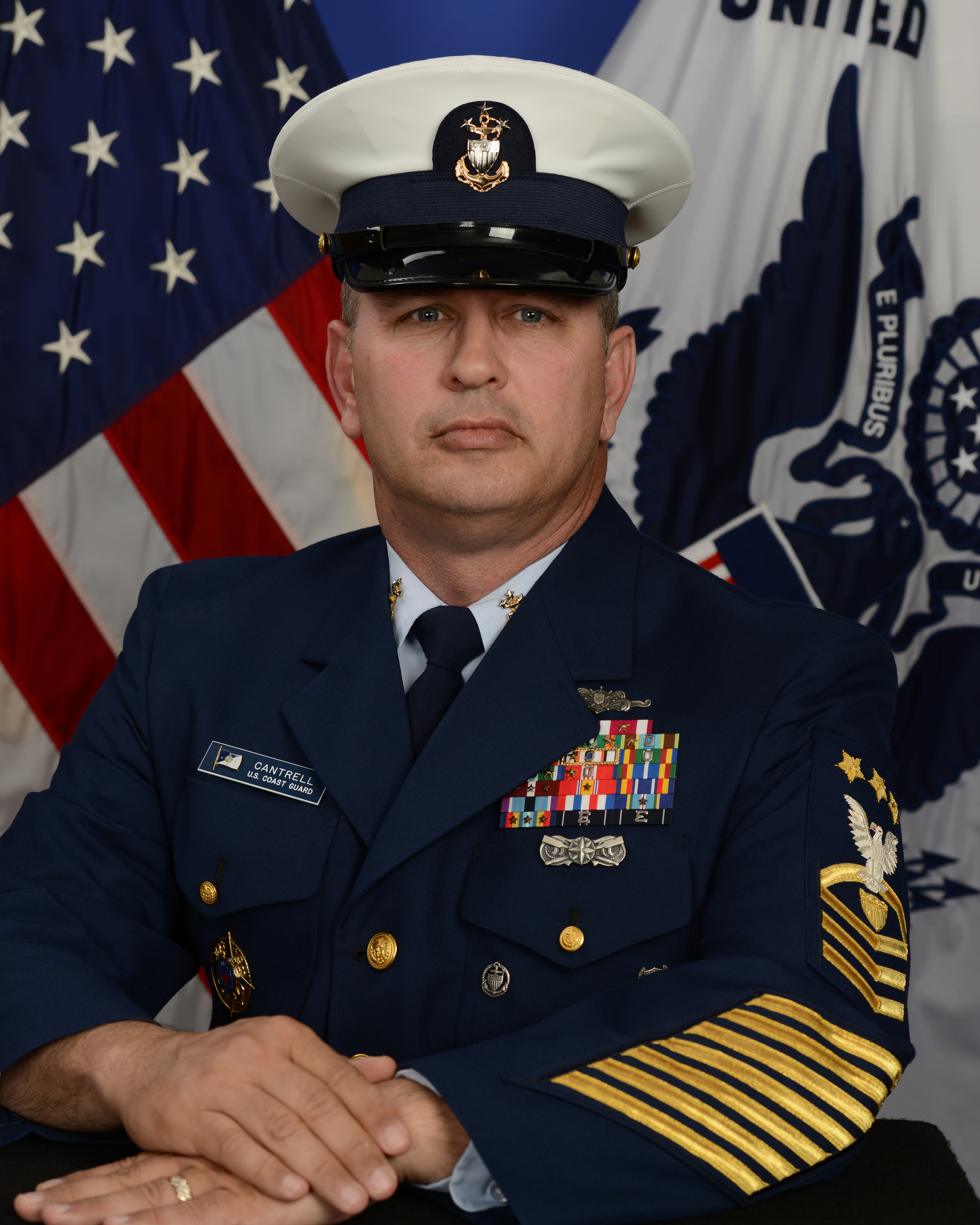 Newest photo of current MCPOCG Cantrell.